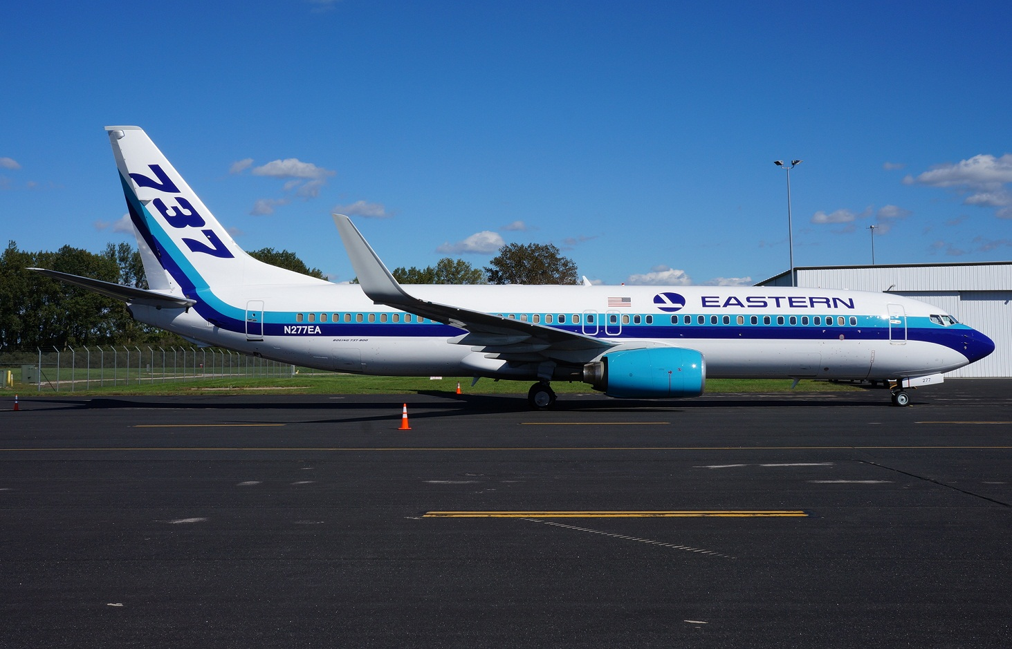 I haven't posted in awhile... but its never to late to start again... here is the catch of the year for me! Unless an Hawaiian 332 or AA 772 comes to MSN!